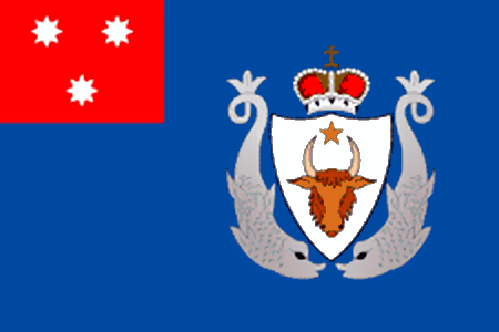 Civil ensign of the Principality of Moldavia (1834-1861)